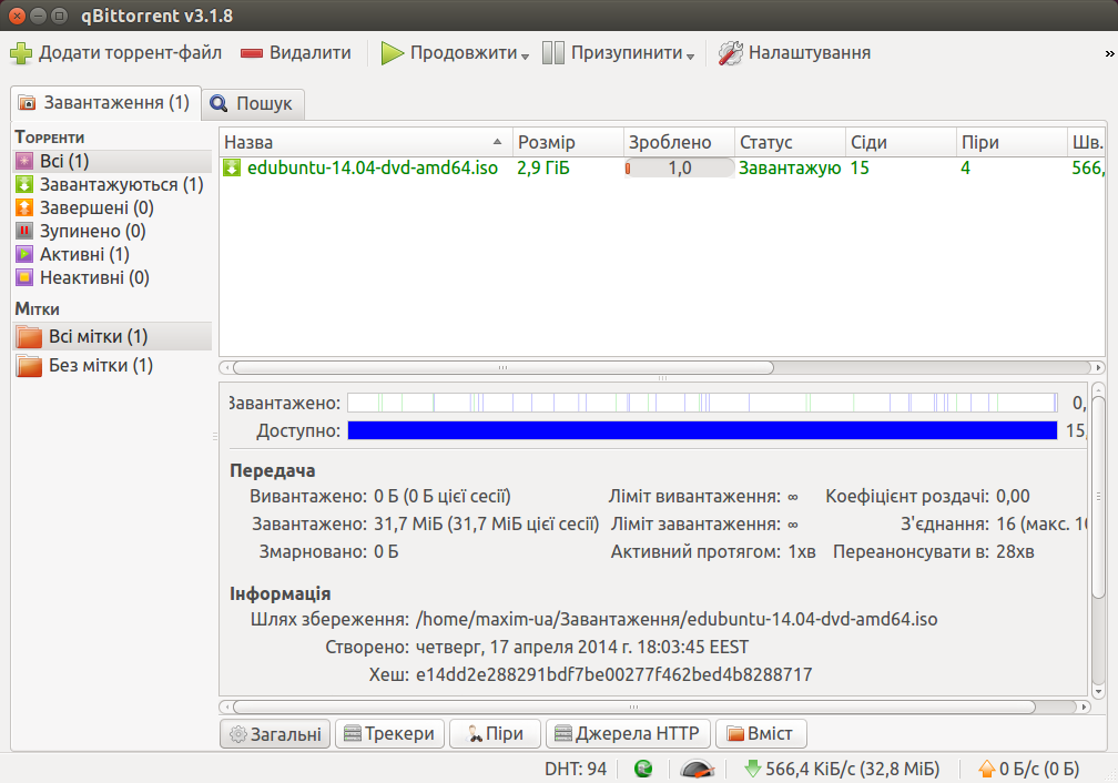 qBittorrent v3.1.8 in Ubuntu 14.04. In Ukrainian.